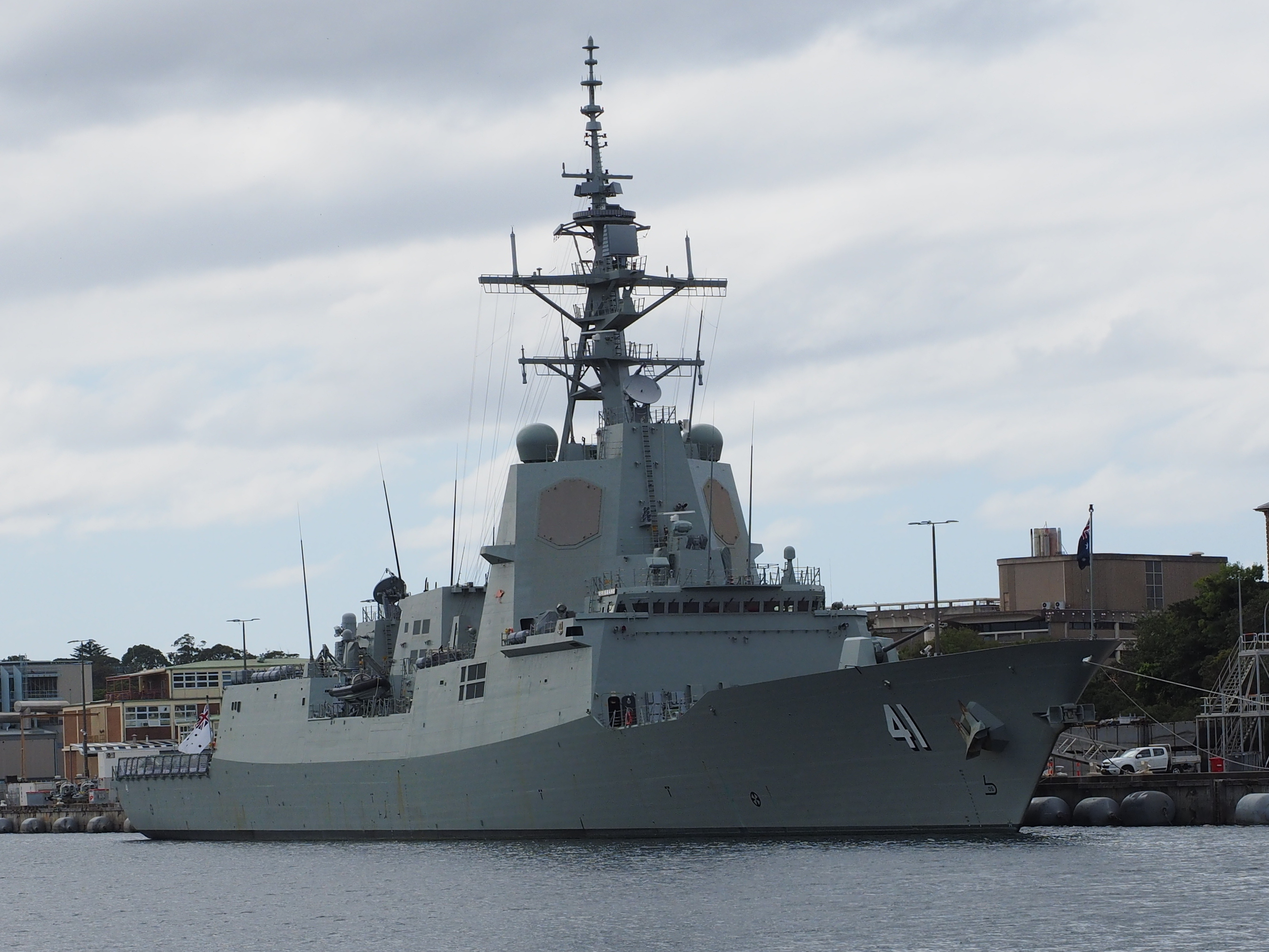 HMAS Brisbane alongside at HMAS Kutabul